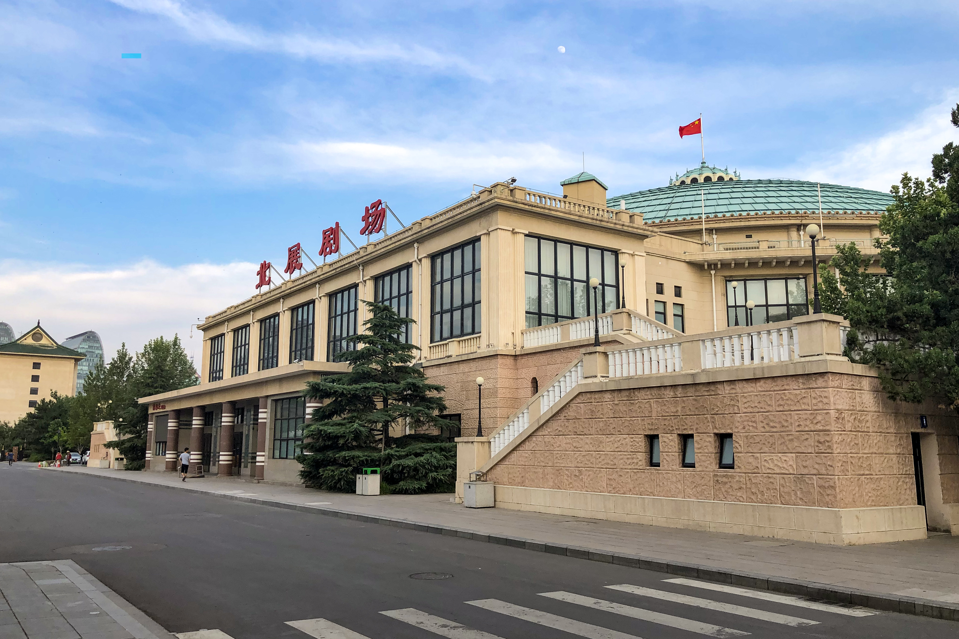 CRLi? Too common...